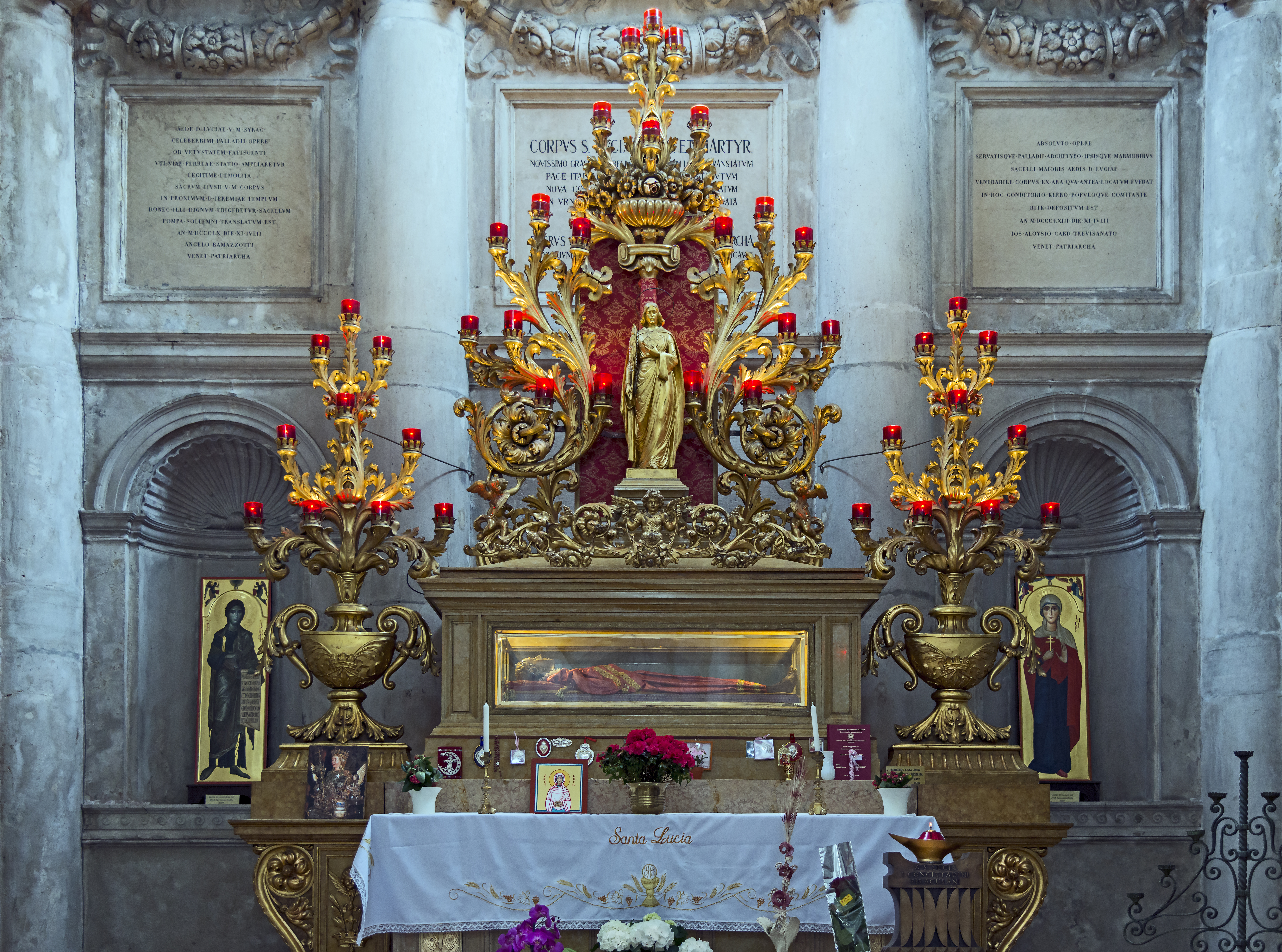 San Geremia, Venice - Santa Lucia